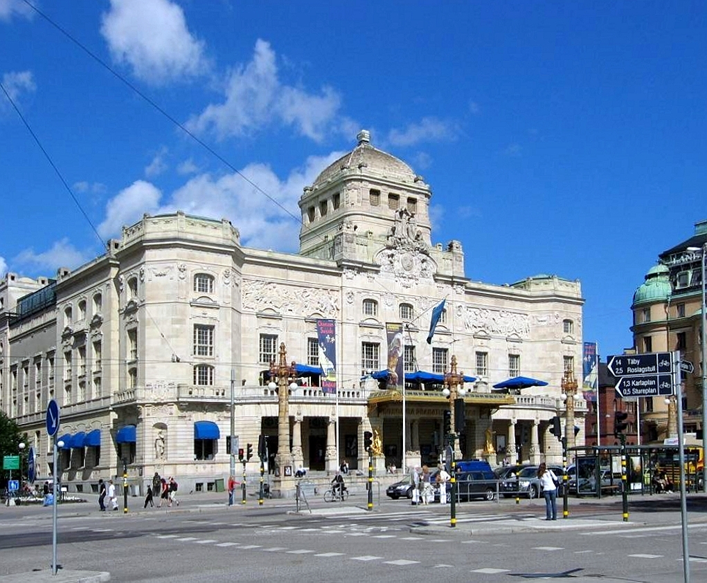 The Royal Dramatic Theatre in Stockholm, Sweden. Royal Dramatic Theatre. The picture shows Dramaten's facade towards Nybroplan with its white Ekeberg marble. At the entrance are John Börjeson's gold-gilded sculptures. The friezes along the entrance façade were made by Christian Eriksson. The building was designed by architect Fredrik Liljekvist and built in 1901-1908. The building was inaugurated February 18, 1908. The two friezes on the outside façade are made by Christian Eriksson and represent a Dionysus march and the most famous figures from the Italian Commedia dell'arte-tradition.